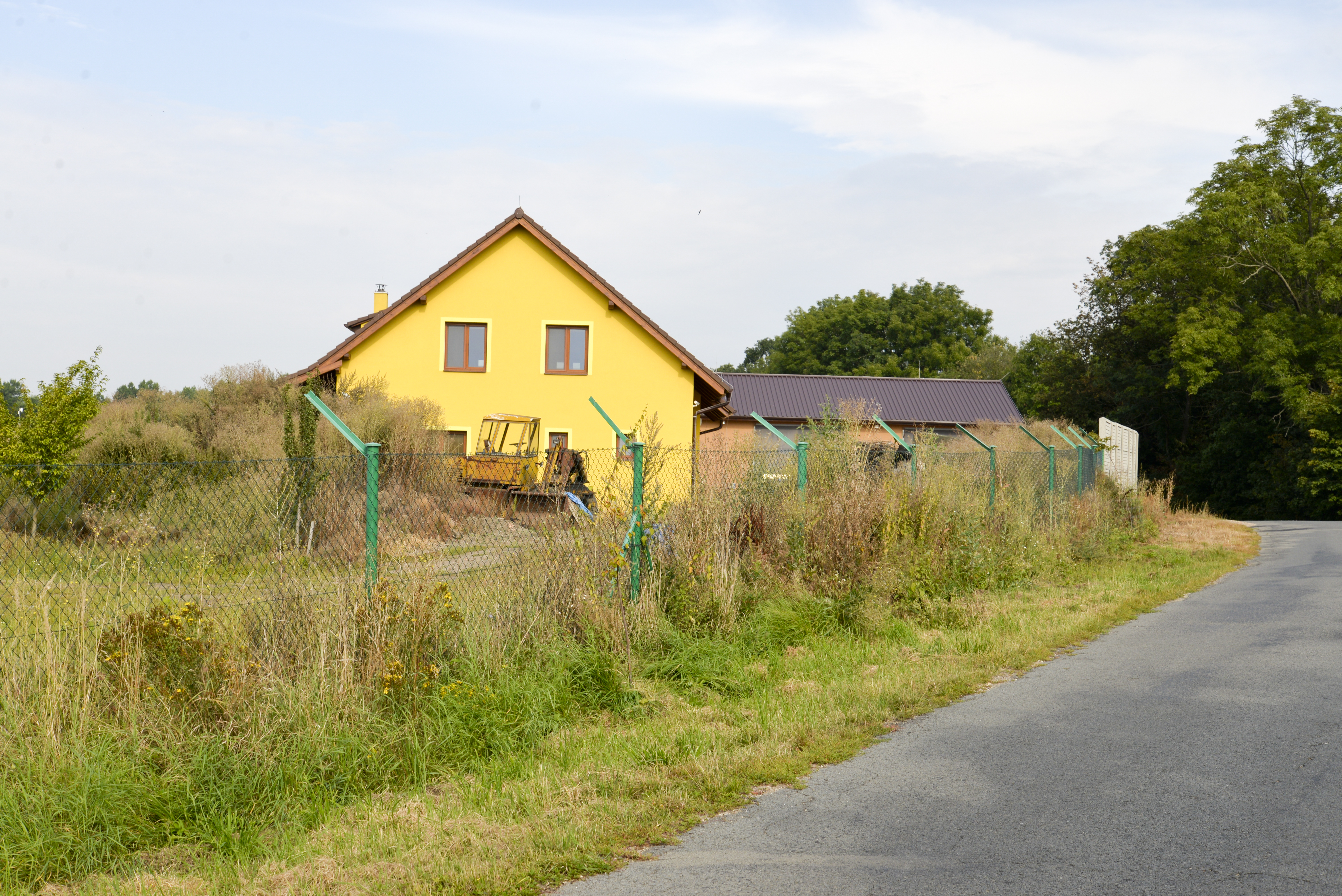 Zájezdy - part of the city Bakov nad Jizerou in Mladá Boleslav District